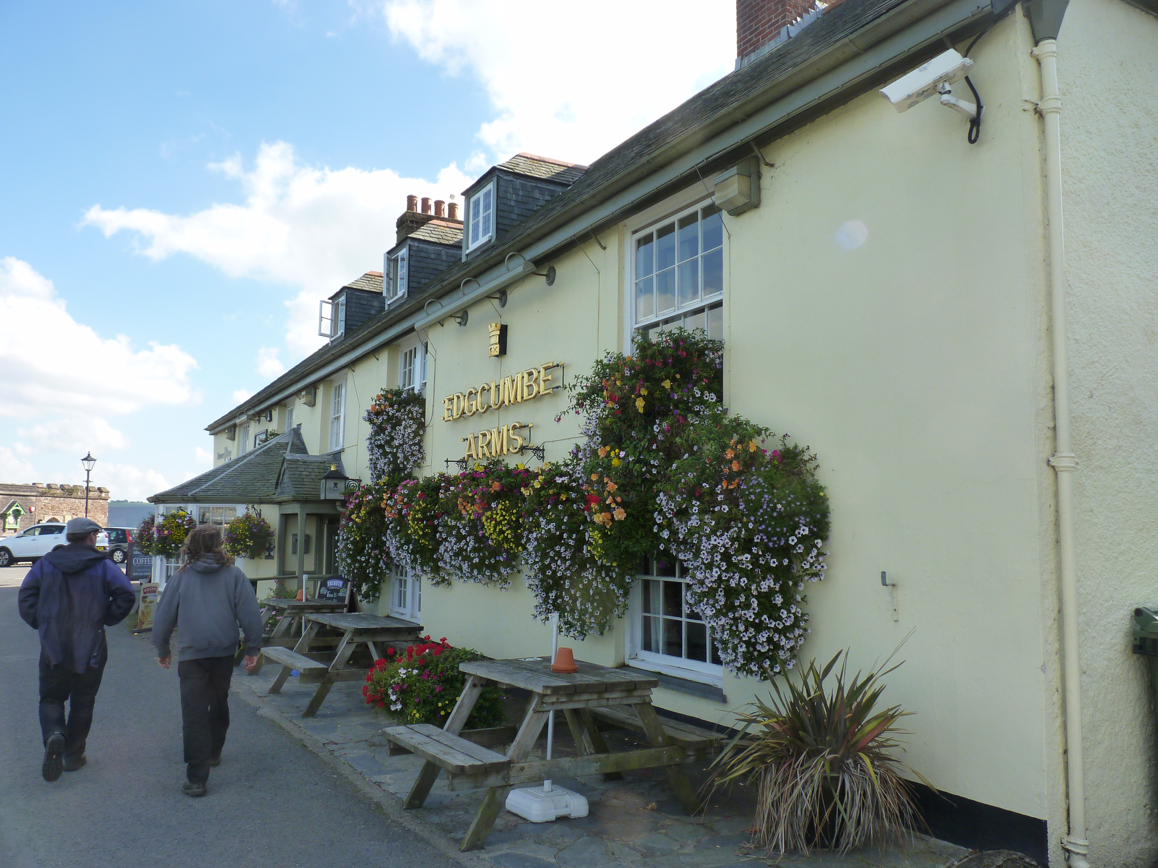 Edgcumbe Arms, Cremyll, Cornwall. (September 2015)